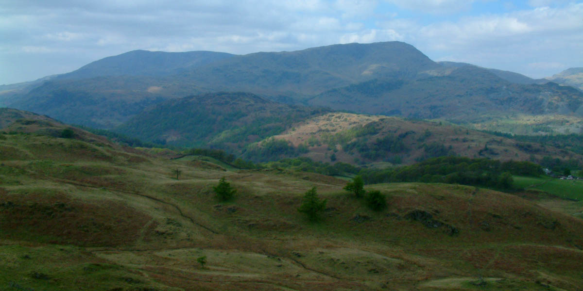 Holme Fell from Black Fell, with the Coniston fells behind Photograph by Stephen Dawson, 19 April 2003.